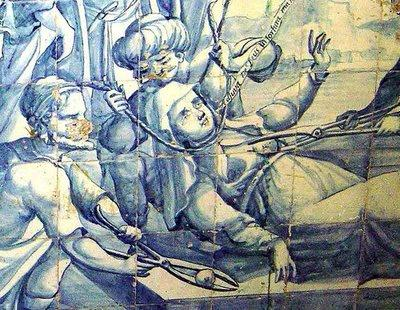 Ketevan of Kakheti